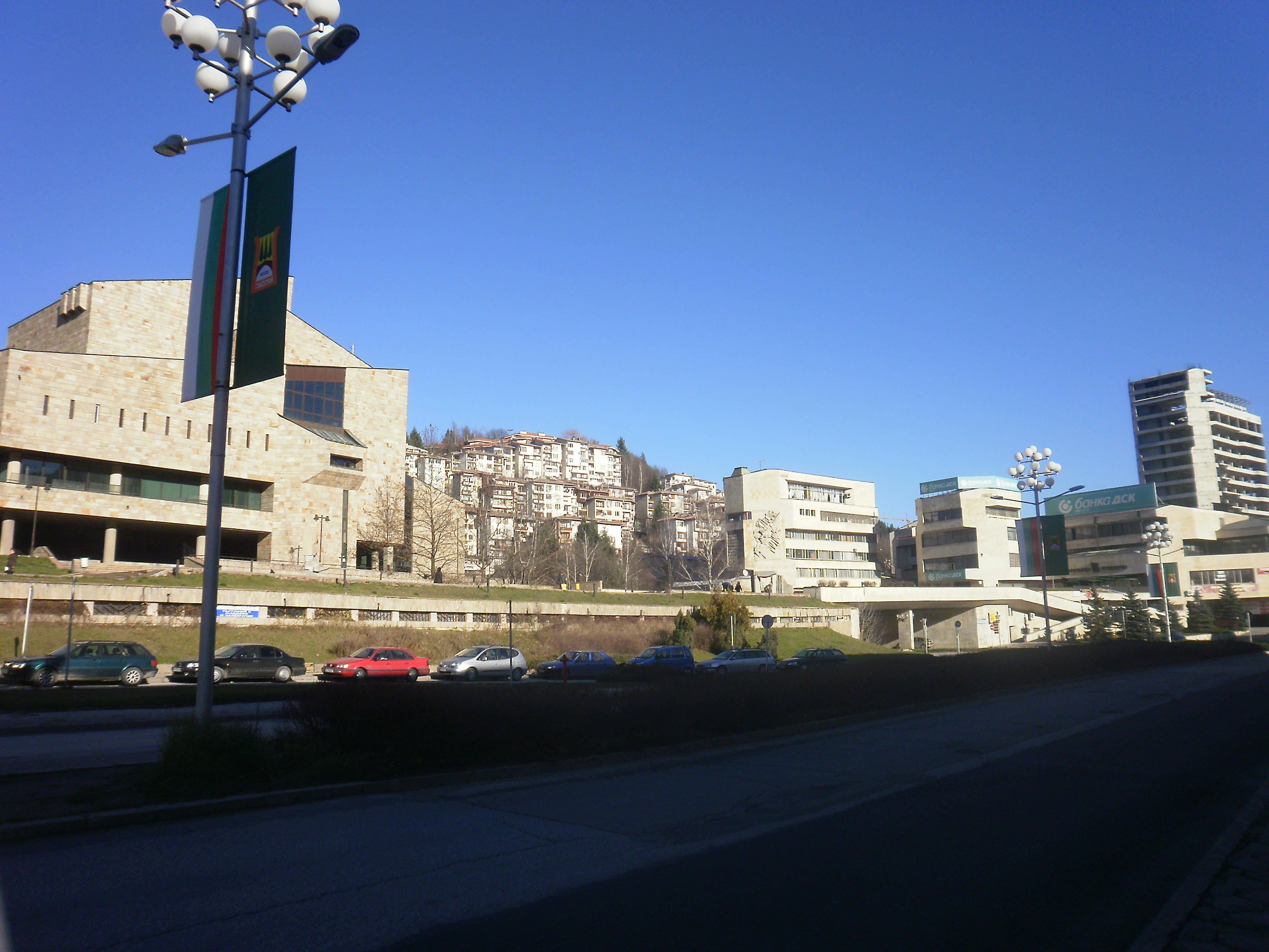 Smolyan, Bulgaria